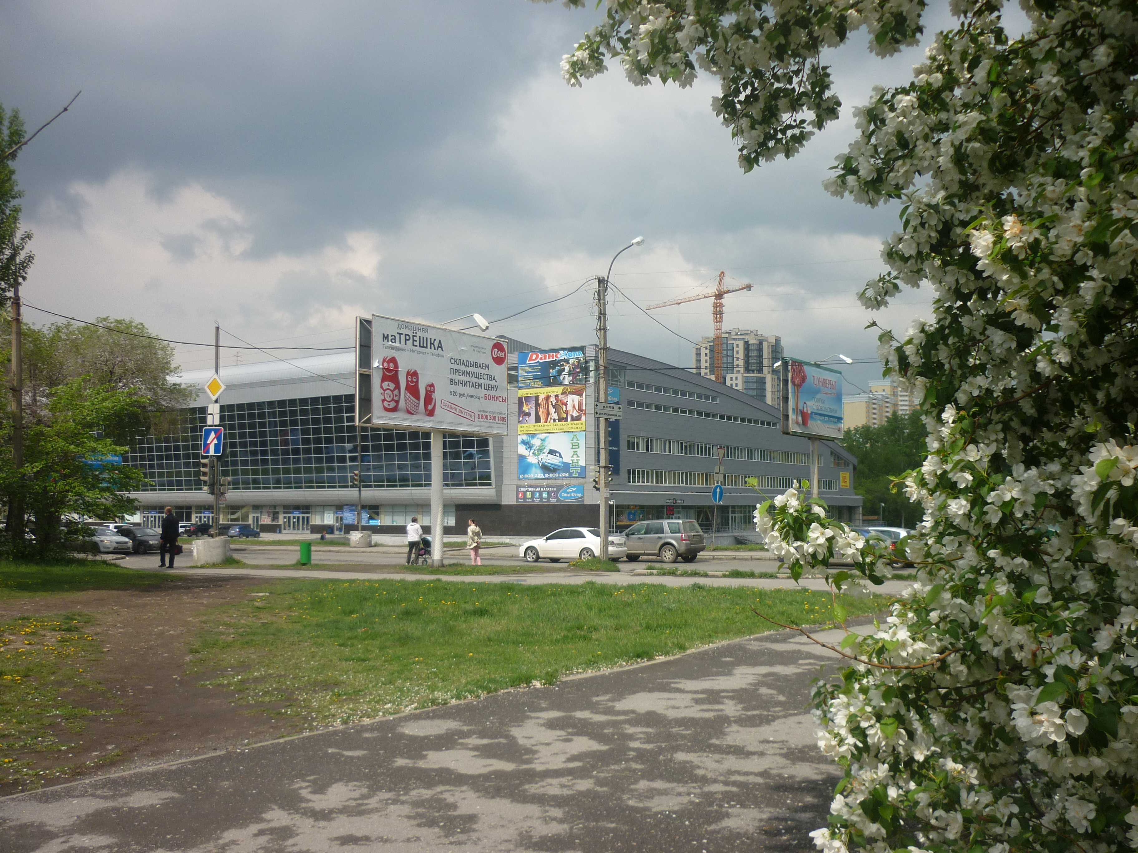 View on Yekaterinburg Sports Palace from Bolshakova street 111